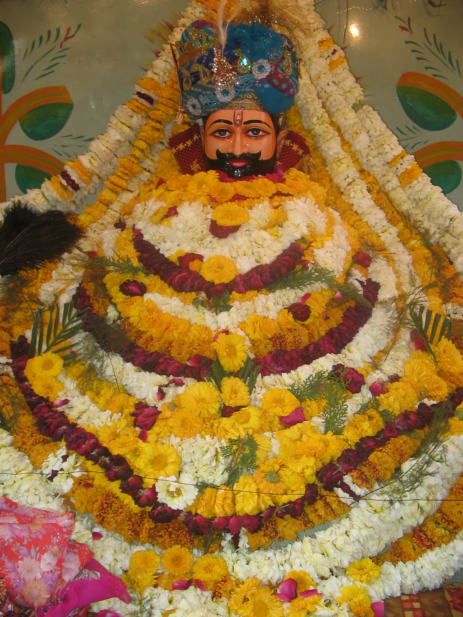 an idol of Khatushyamji. During Pad Yatra-2007 from Kota.